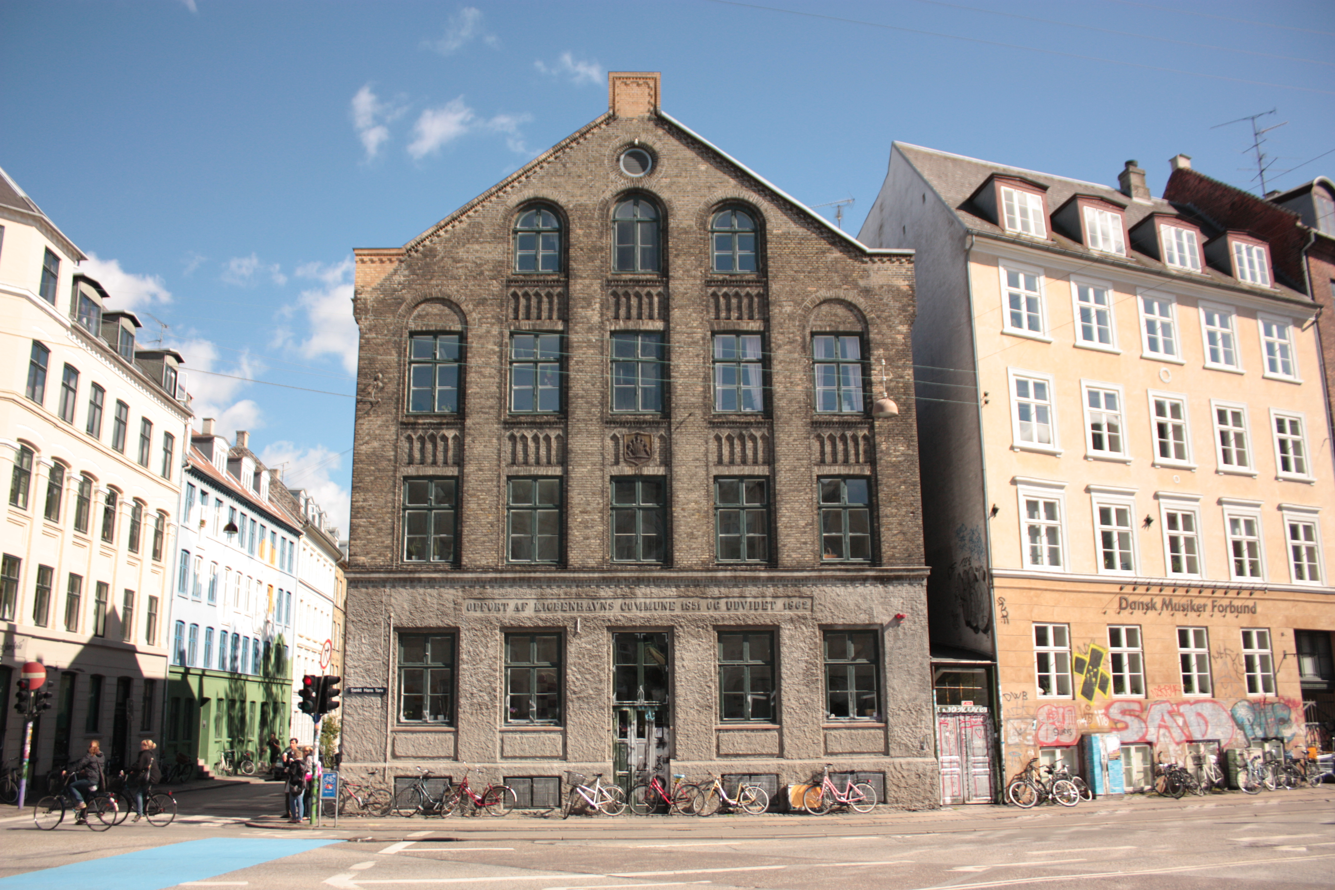 The south-east side (30 Sankt Hans Torv) of Sankt Hans Torv in the Nørrebro district of Copenhagen, Denmark